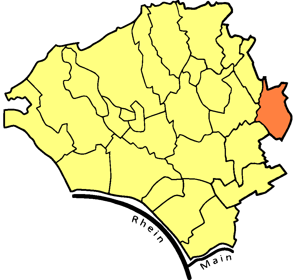 Map of Wiesbaden showing the location of Breckenheim